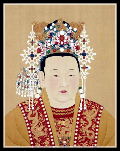 Portrait of Empress Renxiao of Ming Dynasty China